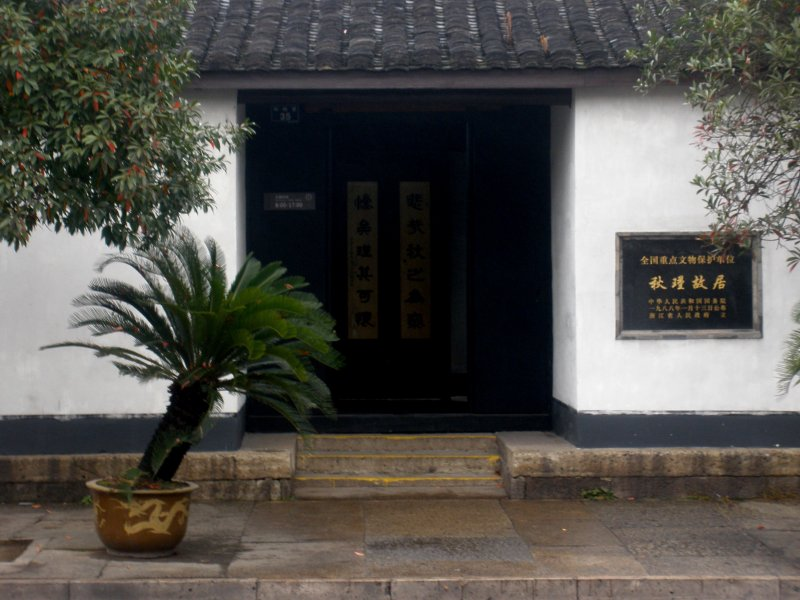 Entrance to Qiu Jin's residence which is now a museum.